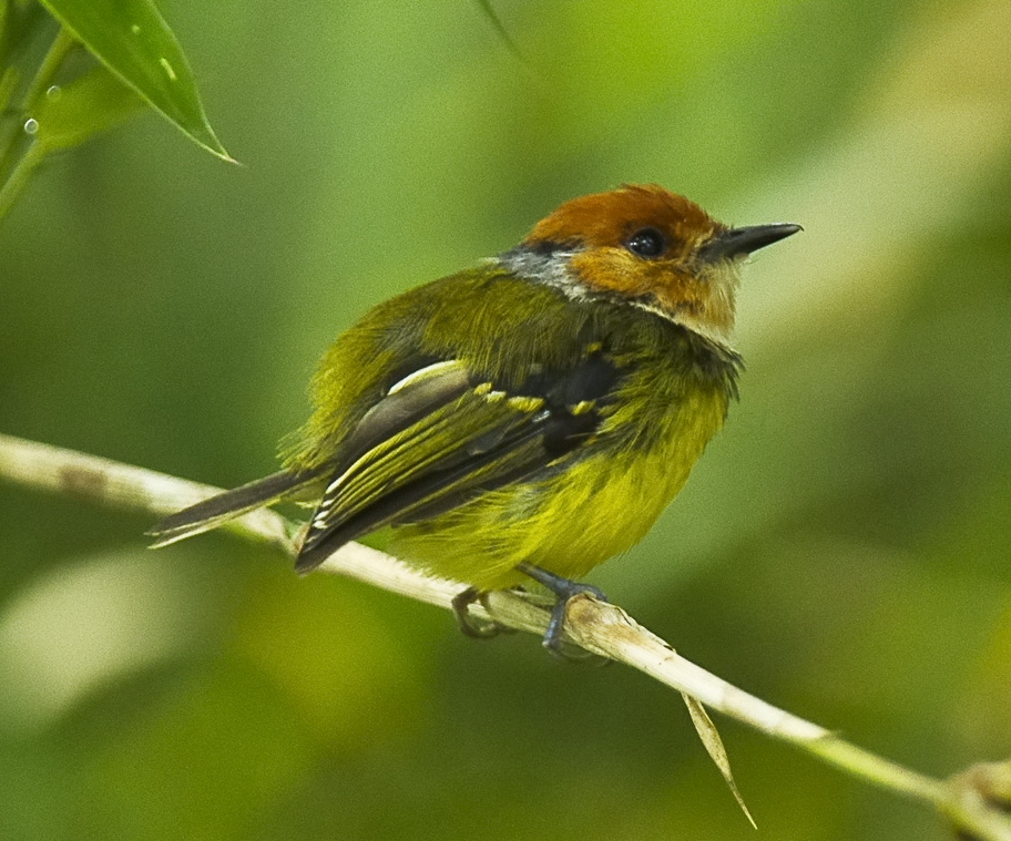 Rufous-crowned tody-tyrant or rufous-crowned tody-flycatcher (Poecilotriccus ruficeps) - Ecuador_S4E3948